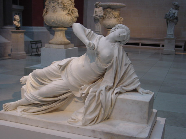 Philippe Bertrand (1663-1704) Lucretia (before 1704) New York, Metropolitan Museum of Art